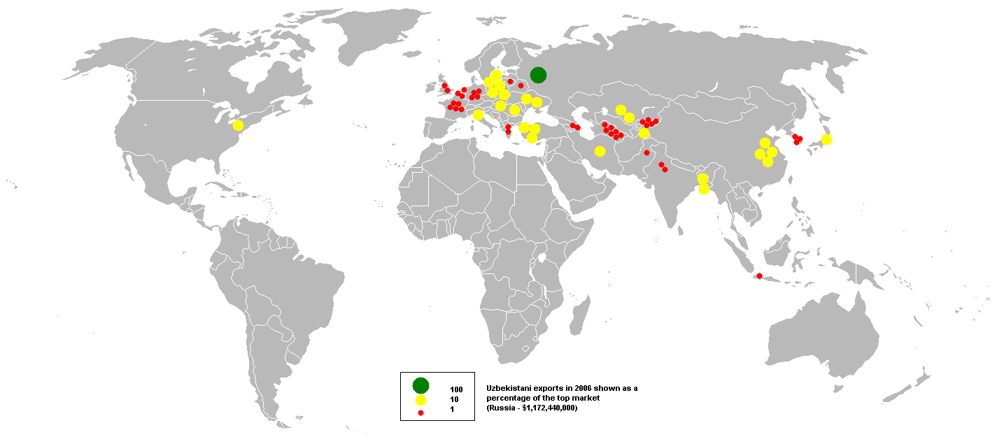 This bubble map shows the global distribution of Uzbekistani exports in 2006 as a percentage of the top market (Russia - $1,172,440,000). This map is consistent with incomplete set of data too as long as the top producer is known. It resolves the accessibility issues faced by colour-coded maps that may not be properly rendered in old computer screens. Data was extracted on 19th September 2007 from Based on :Image:BlankMap-World.png